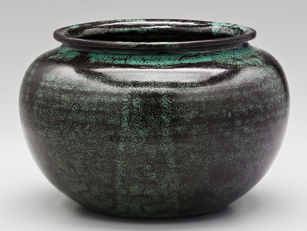 Vase; Ceramics-Pottery